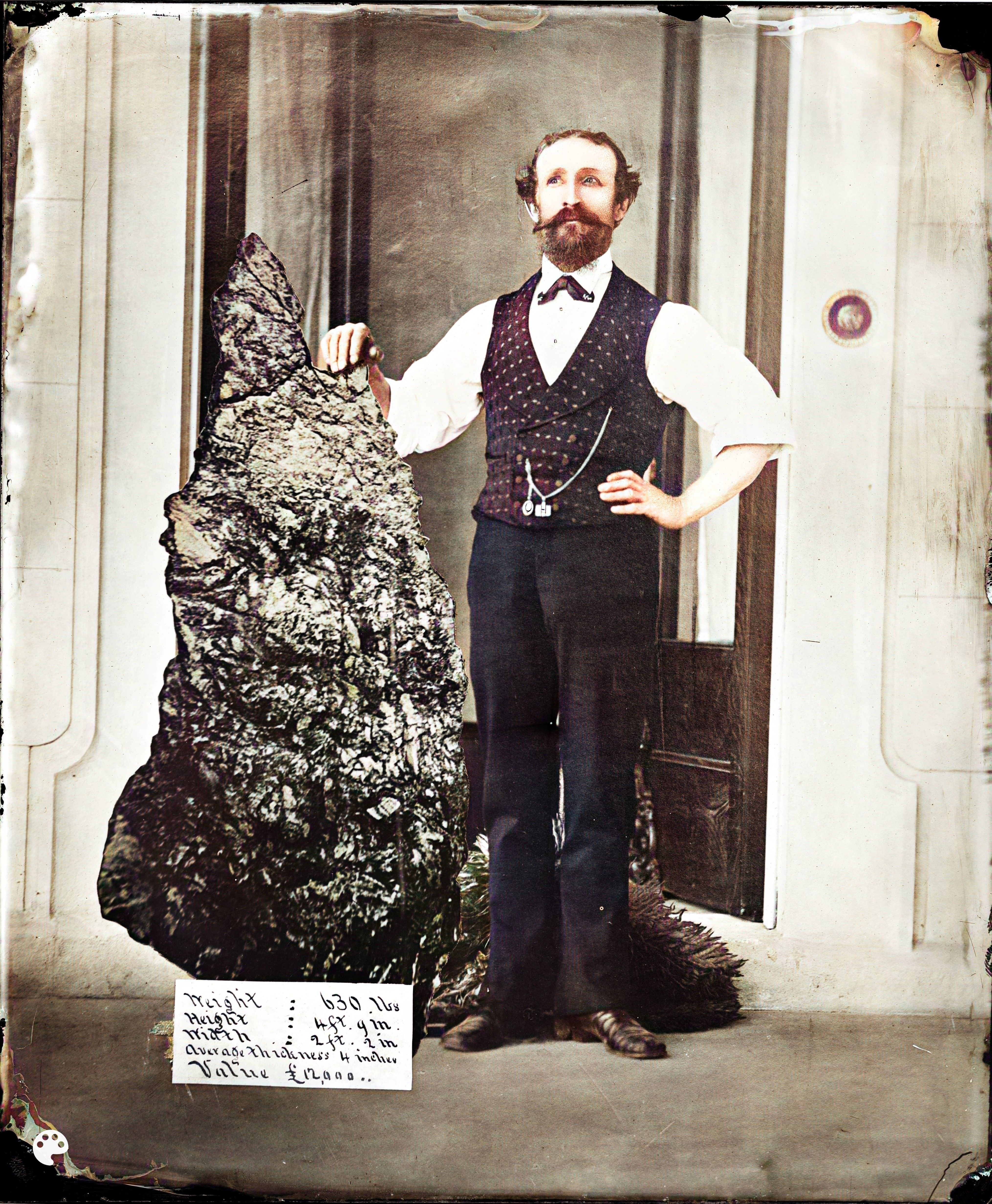 Original black and white file: File:B.O. Holtermann with the Holtermann Nugget, North Sydney, 1874-1876 ? - American & Australasian Photographic Company (8575721367).jpg